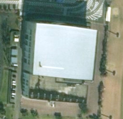 Tendo Sports Center